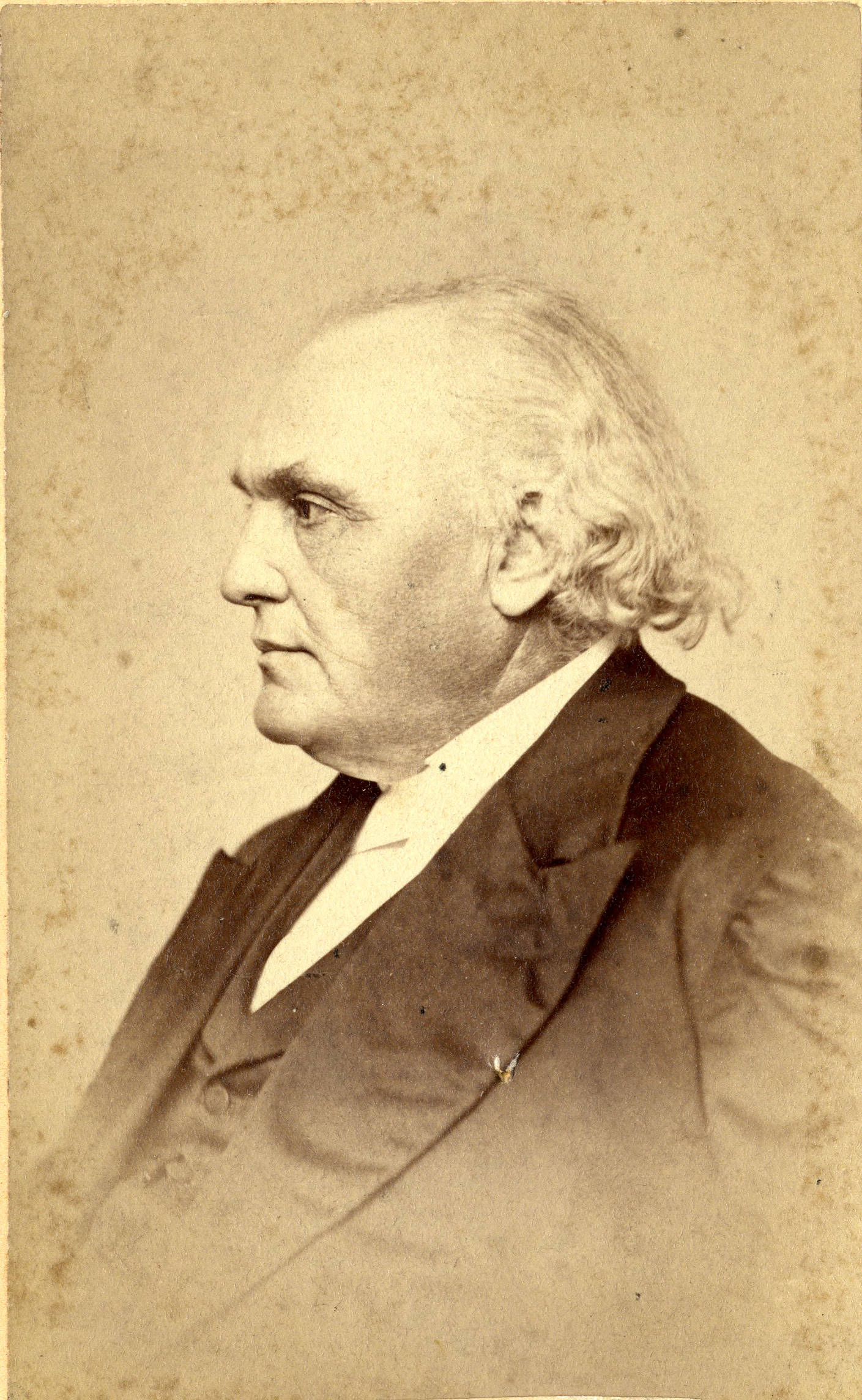 Portrait of Lyman Burt Peet, Middlebury College Alumnus, Class of 1834; missionary A.B.C.F.M. Siam, 1839-1846; Foochow, China, 1846-1871; retired West Haven, Conn.; b. 3/1/1809 at Cornwall, Vt.; d. 1/11/1878; (left-facing portrait)